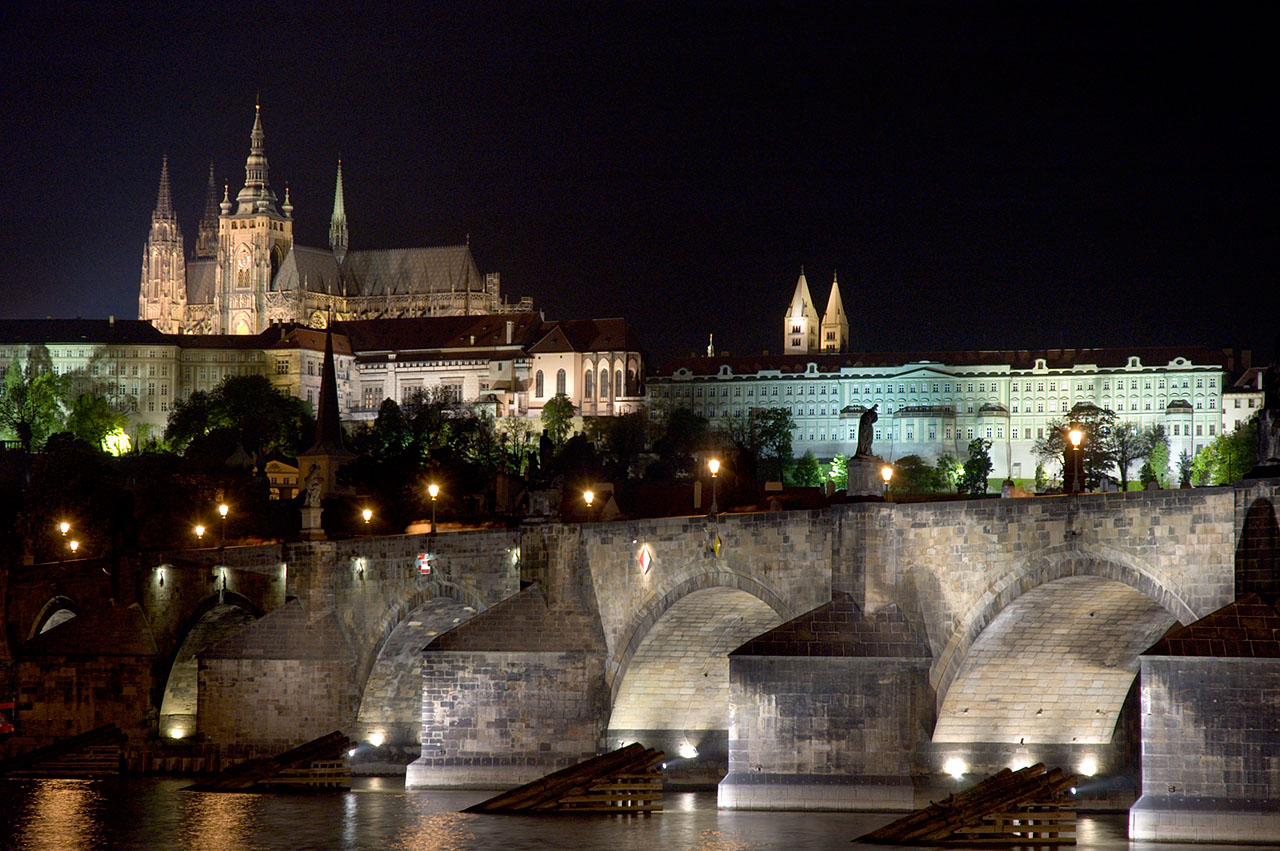 Summary Prague Castle as seen at night. Photographer: Karney Li (me)